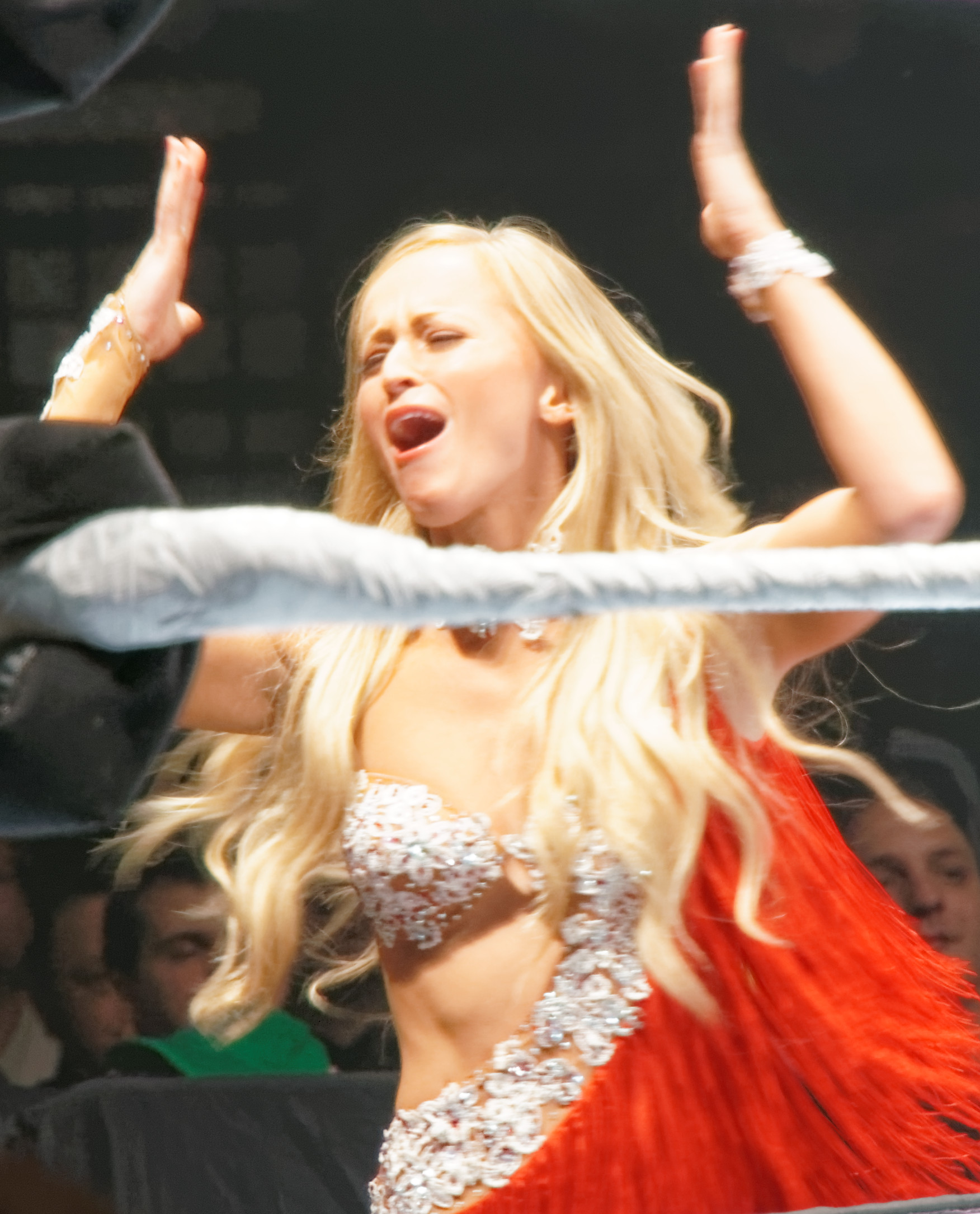 Summer Rae at a WWE house show in Vorst, Belgium on November 8, 2013.